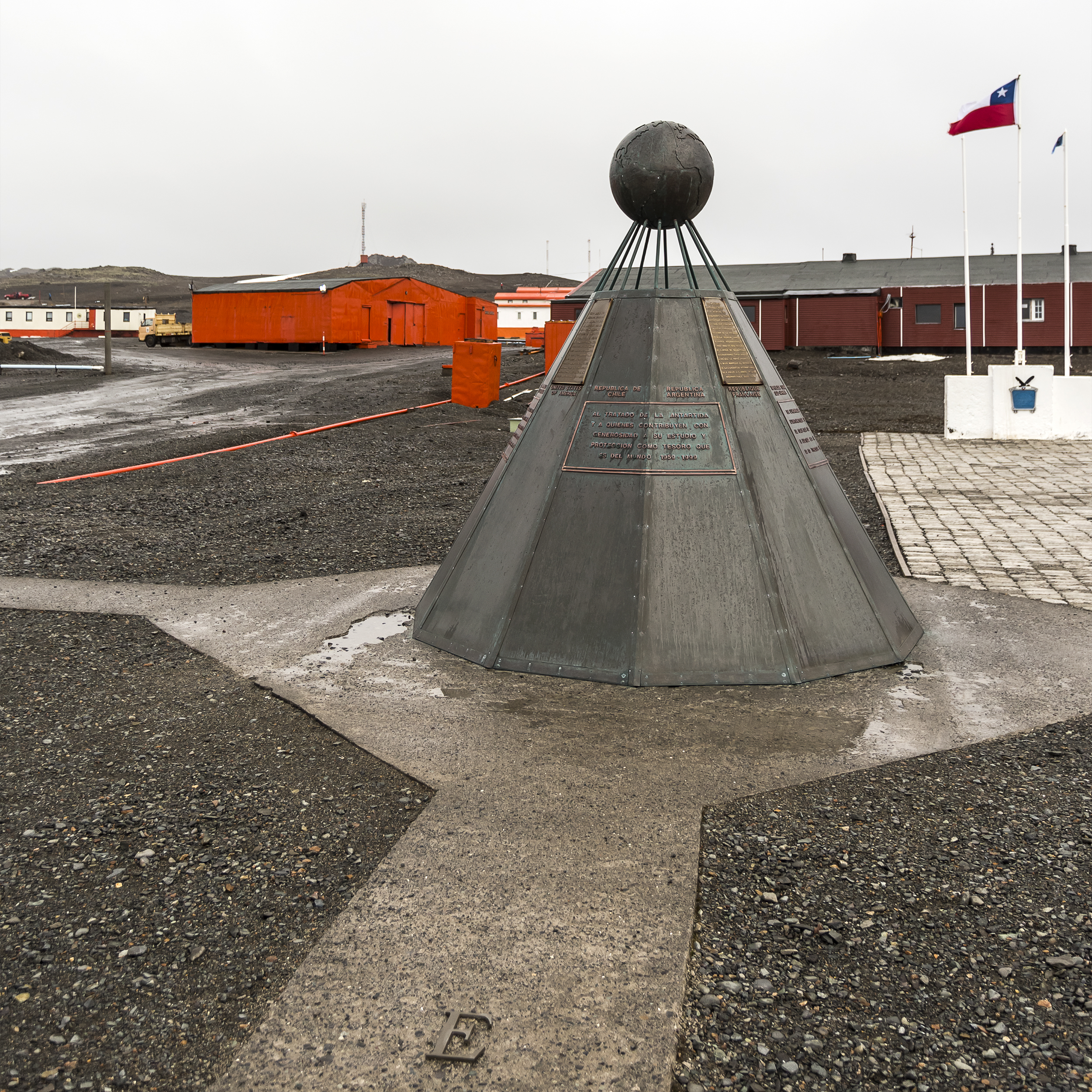 Monument to the Antarctic Treaty and Plaque. Located near the Frei, Bellingshausen and Escudero bases (Fildes Peninsula, King George (Vaterloo, 25 May) Island, Antarctica).